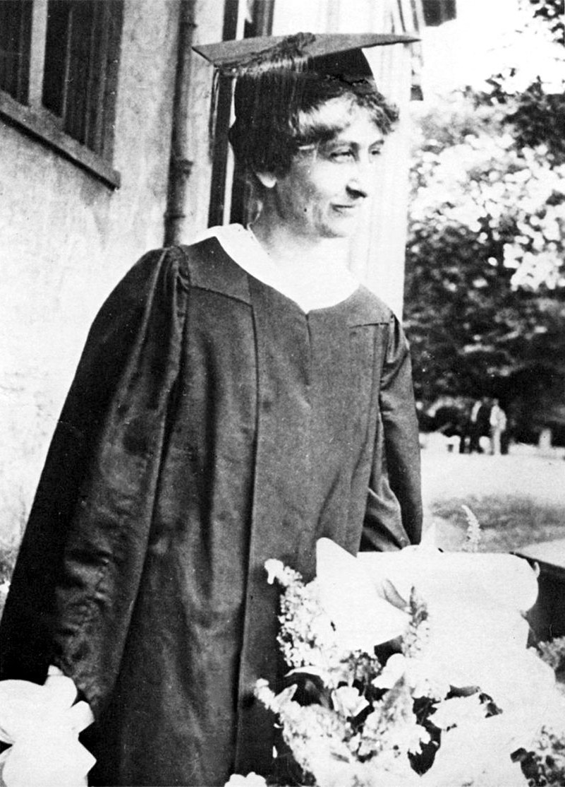 Description from Boney 2000, p. 131: "The first woman undergraduate with her diploma, 1919. Mary E. Creswell, a graduate of the State Normal School in Athens, took science courses at the University of Georgia and became one of the first women in the U.S. Extension Service. In 1918, she was made head of the new Division of Home Economics at the A&M College, and the following year she received her own division's first B.S. in home economics."